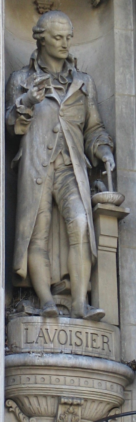 Antoine Lavoisier, French chemist. Statue in the Hôtel de Ville of Paris. Photo taken by Thierry in Jan. 2006.